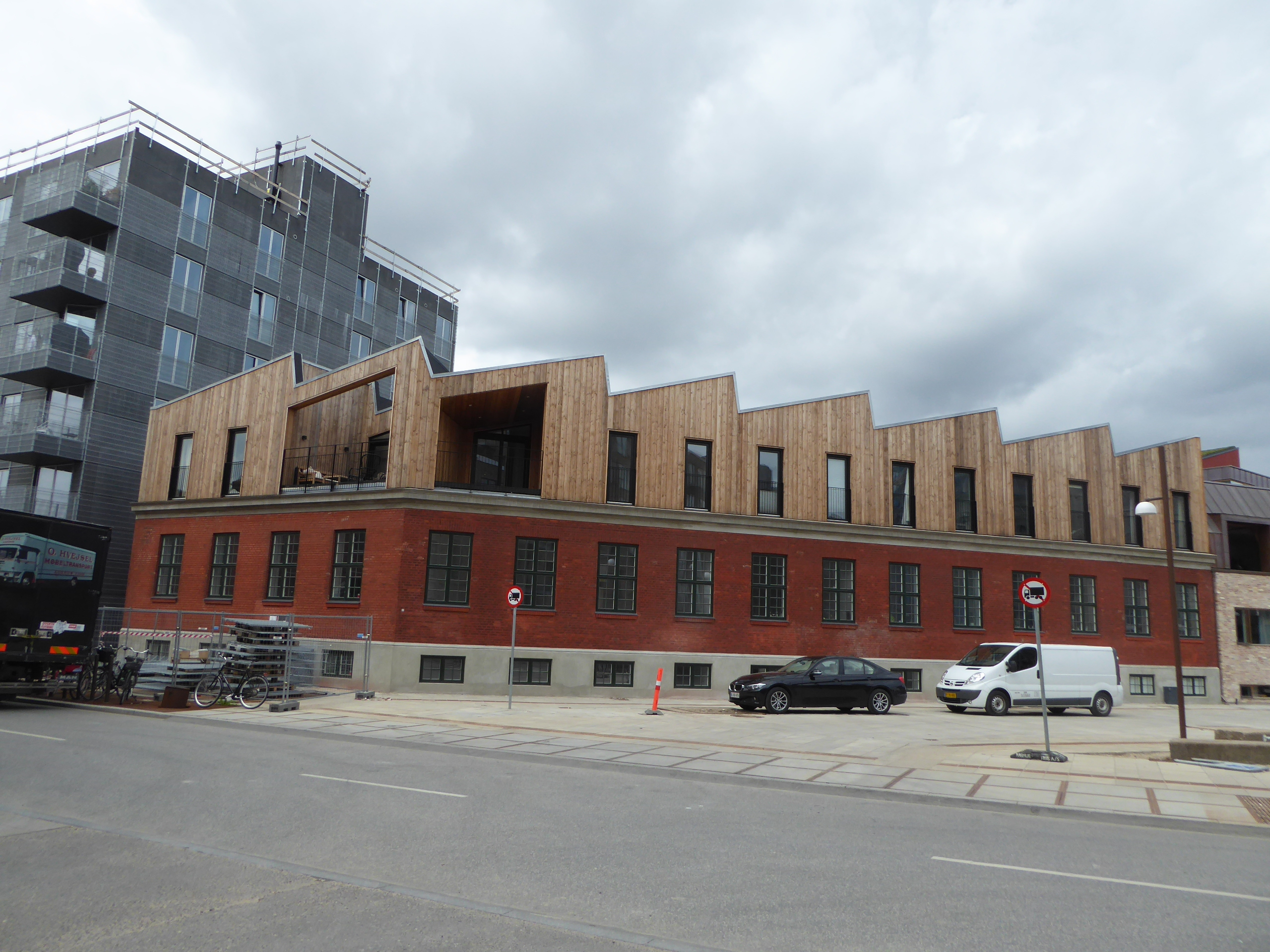 One of the buildings named Frikvarteret at Sassnizgade in Nordhavn in Copenhagen.